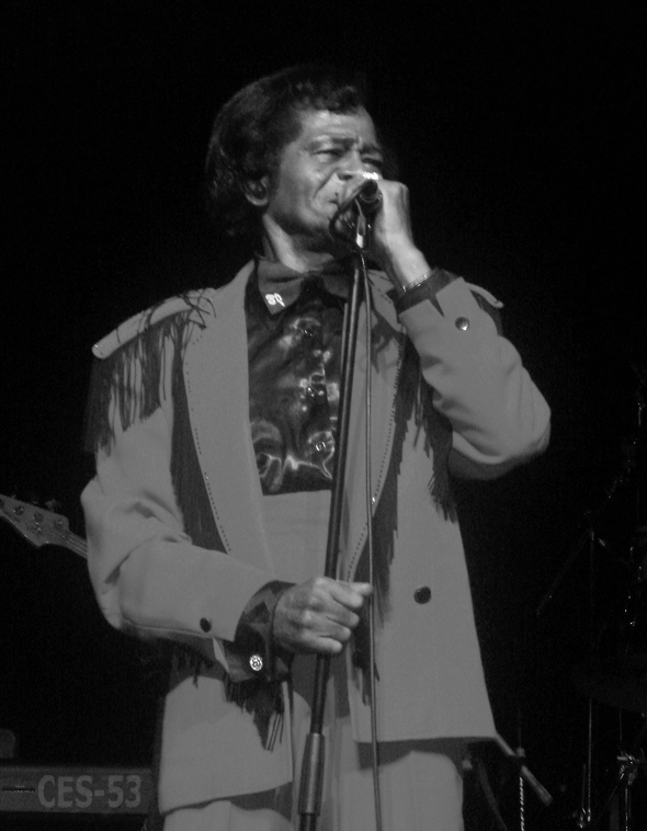 Mr Brown performing live, on tour.